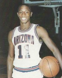 Basketball player Kenny Lofton with the Arizona Wildcats.